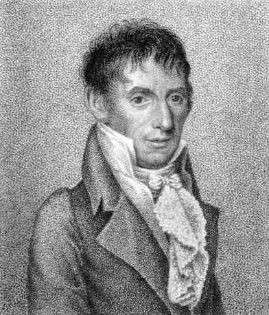 Italian violist, violinist and composer Alessandro Rolla (1757-1841) by Luigi Rados (1773-1840) after Jean-François Bosio (1764-1827). Stipple engraving.